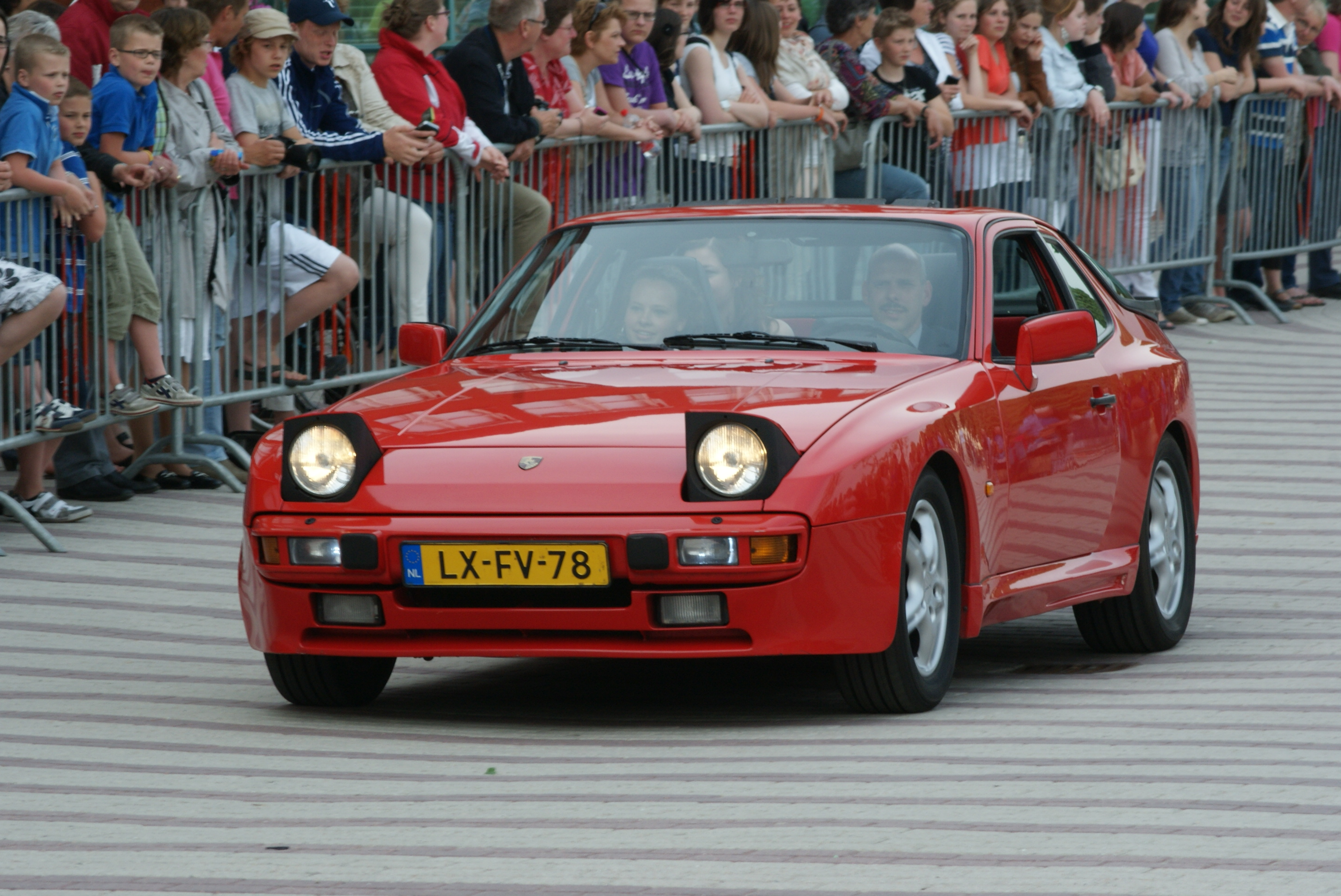 LX-FV-78 Exam Prom, Ichthus College